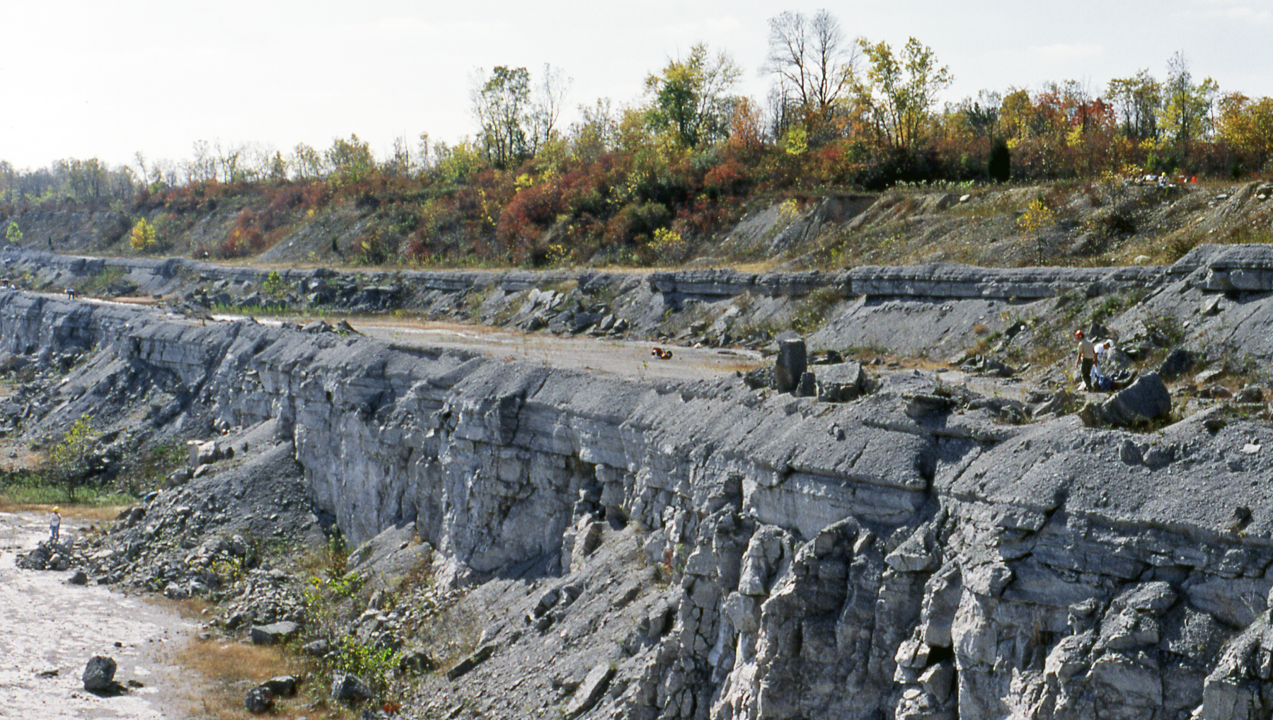 Limestone & shale in the Devonian of Ohio, USA. This quarry near Toledo, Ohio targeted limestone for cement-making purposes. An interbedded limestone and shale unit of Middle Devonian age called the Silica Formation (also known as the Silica Shale) is the overburden at this site. The Silica Formation is richly fossiliferous with typical mid-Paleozoic marine invertebrates such as brachiopods, bryozoans, corals, crinoids, and trilobites. Locality: Benchmark Materials-France Stone Company Sylvania Quarry (= Hanson Aggregates Midwest Incorporated Sylvania West Quarry; = Medusa South Quarry & Medusa South-South Quarry), north of Sylvania Avenue & south of Brint Road & west of Centennial Road, town of Sylvania, northwestern Lucas County, northwestern Ohio, USA (41° 41' 27.04" North latitude, 83° 44' 47.40" West longitude) Locality info. at